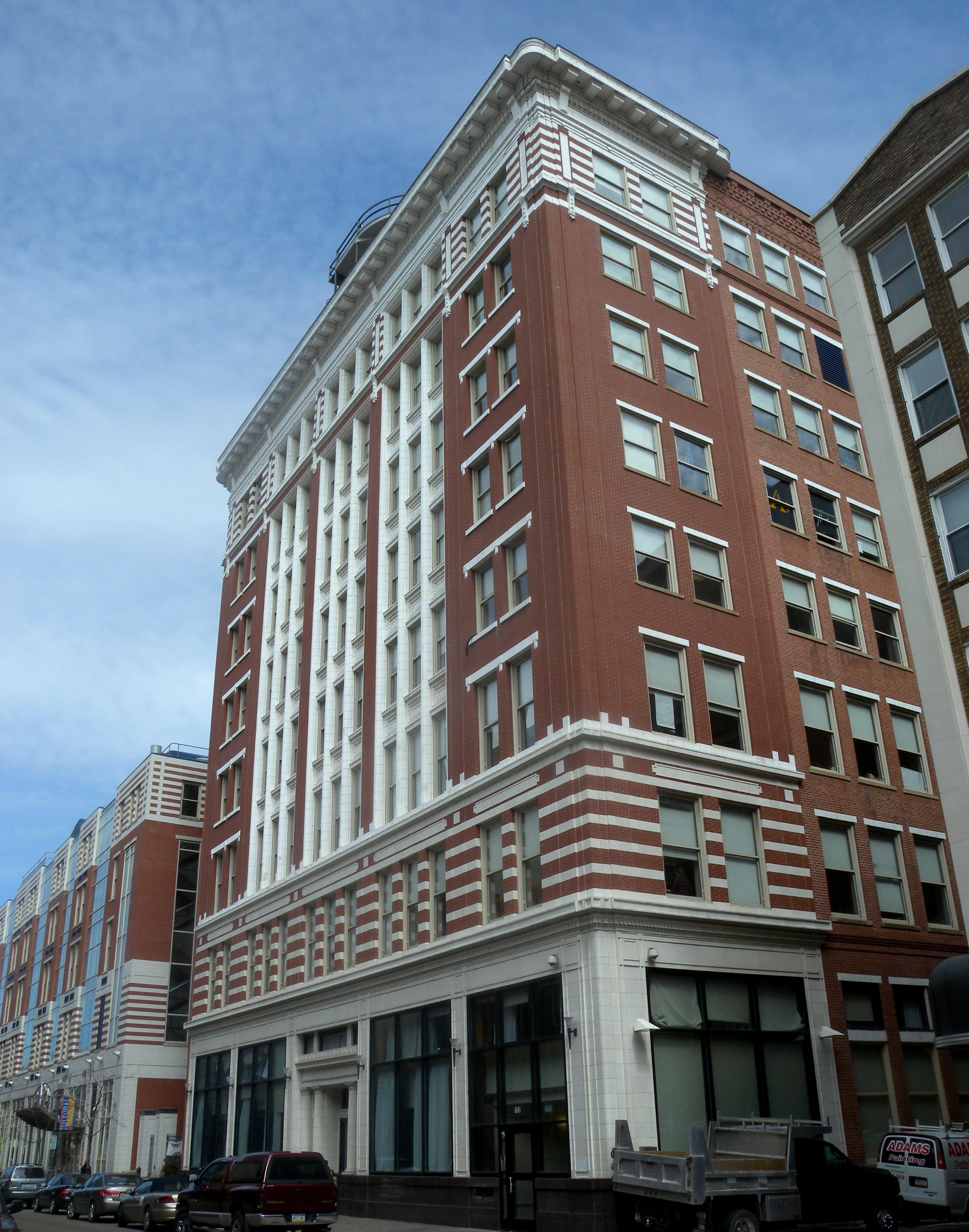 Looking north at Creative And Performing Arts school on a mostly sunny midday.